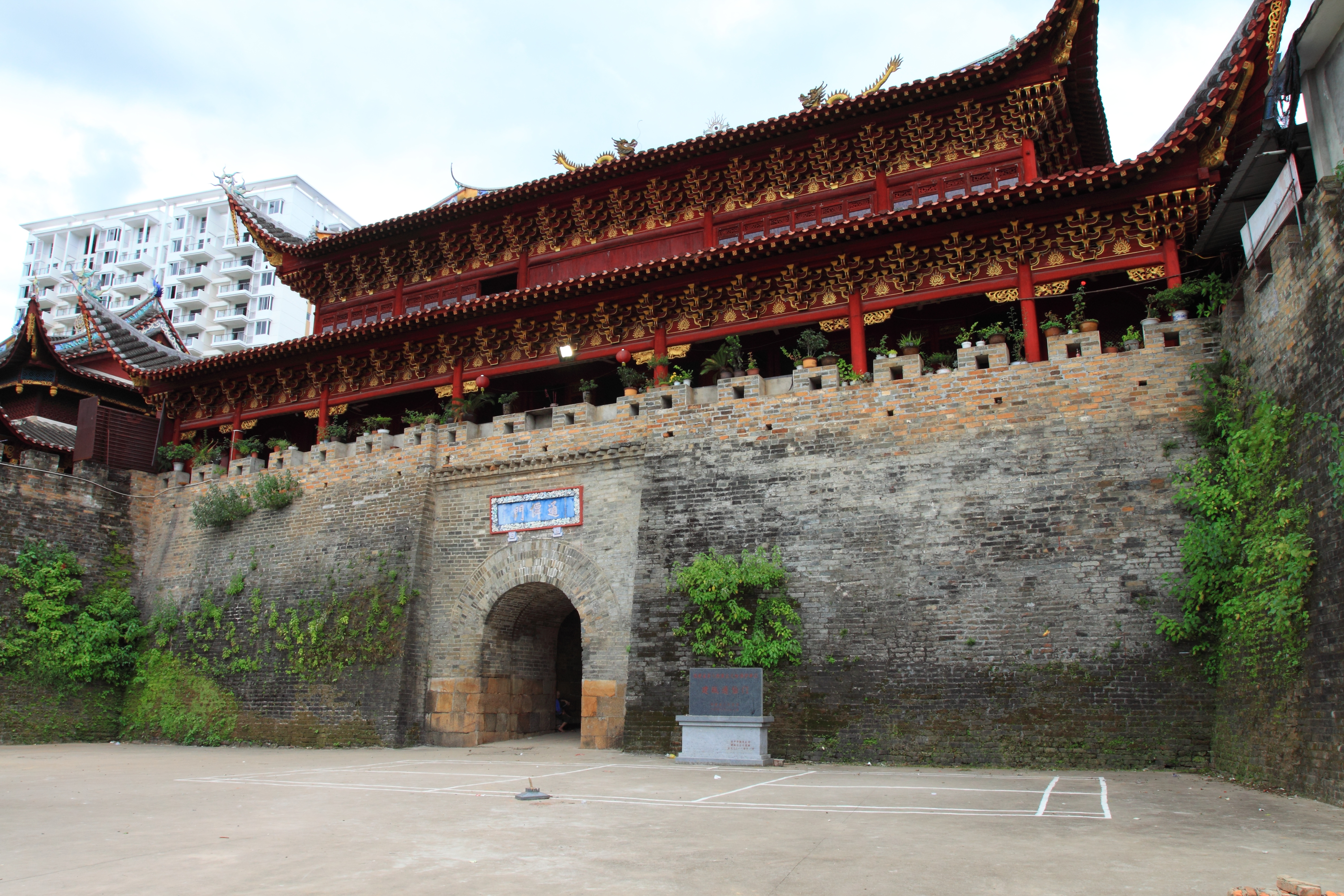 Jian'ou Tongxian Gate, in Jian'ou, Fujian, China.